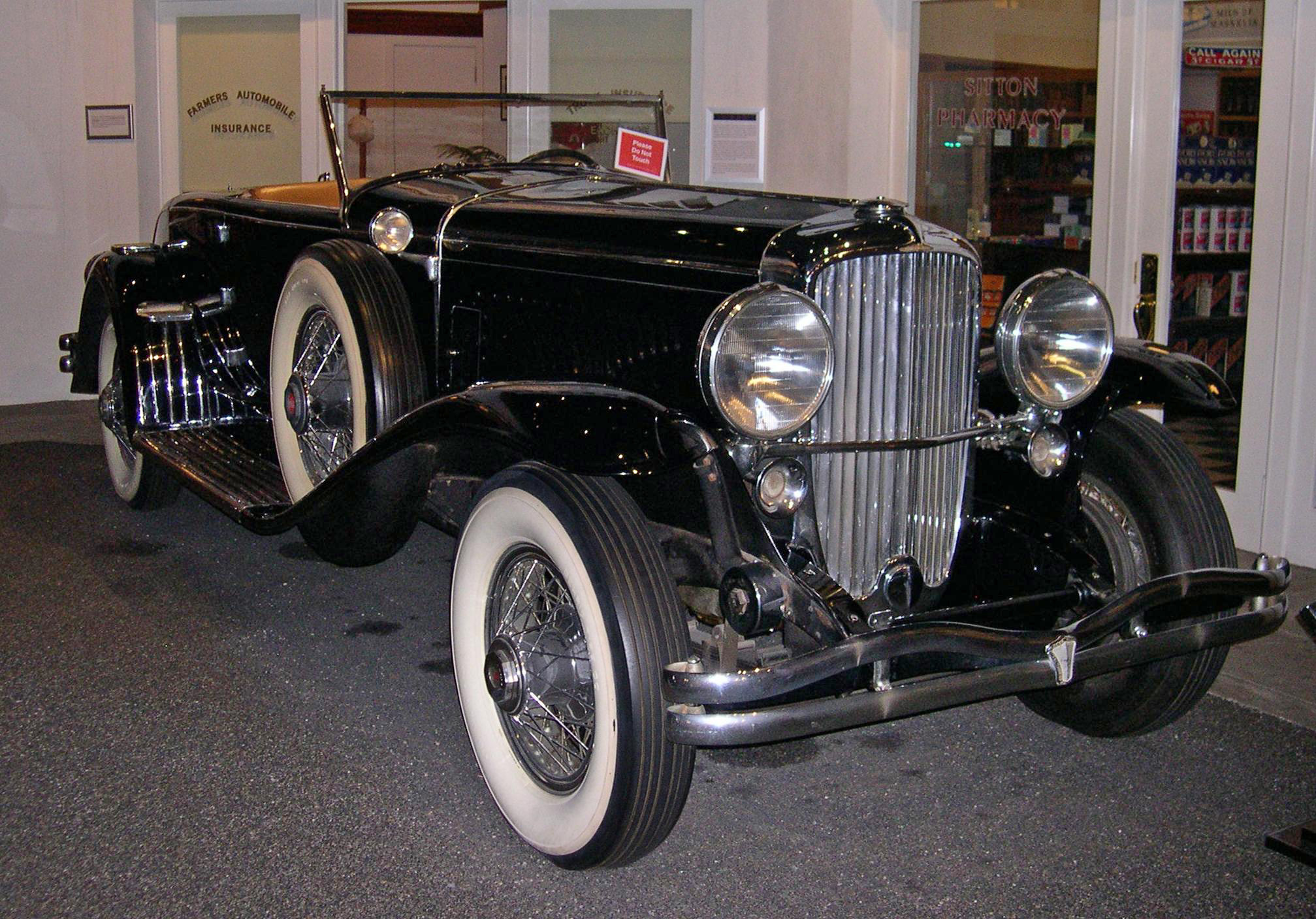 1932 Duesenberg J Murphy-bodied disappearing top roadster From the Petersen Automotive Museum, Los Angeles, CA